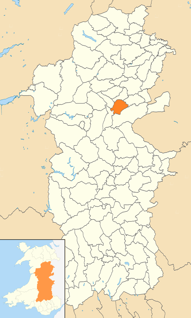 Location map of the community (civil parish) of Newtown and Llanllwchaiarn in the north of Powys, Wales